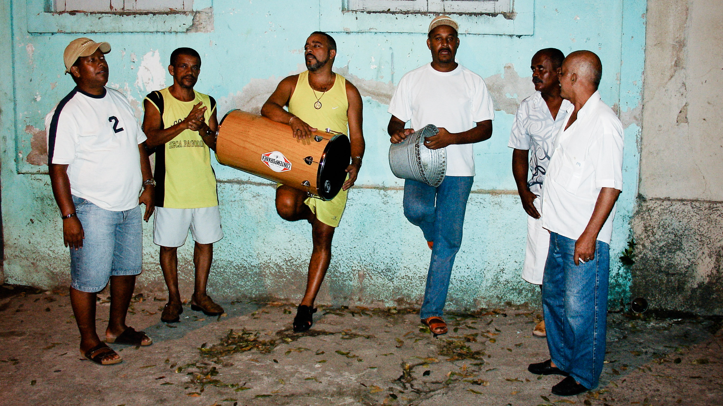 A roda of Samba veterans in the favelas of Rio during the filming of “Samba on your Feet""